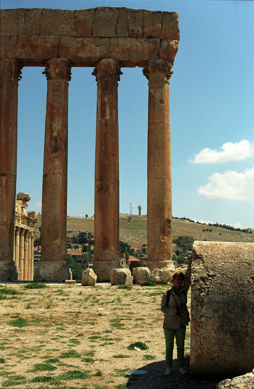 Baalbek, Temple of Jupiter